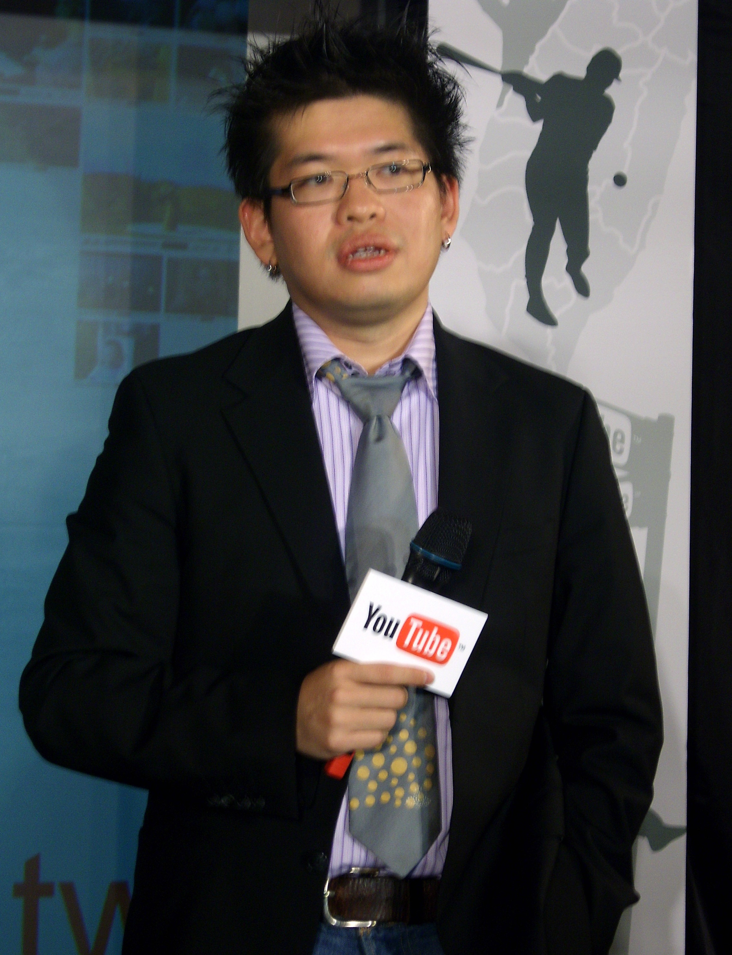 Steve Chen is interviewed by medias in Taiwan at YouTube Taiwan Launch Press Conference.